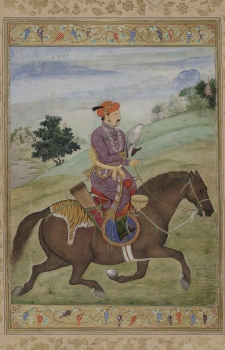 17th Century Mughals from the "Patna's Drawings" album Dating from the period of Shahjahan's reign. Bodleian Library, University of Oxford. Manuscript Douce Or. a.1 Source & descriptions